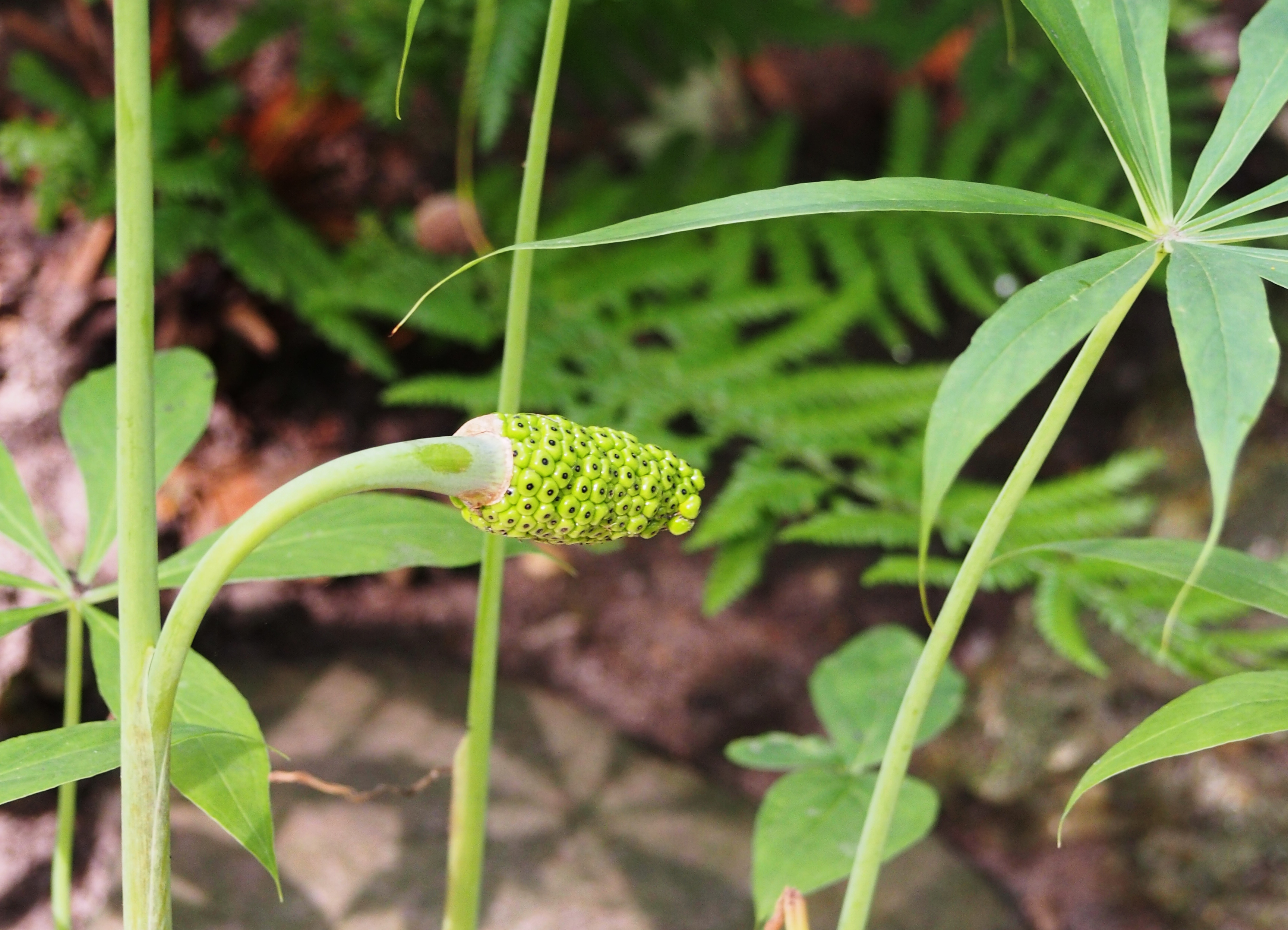 Arisaema erubescens infructescence, plant cultivated in Wrocław University Botanical Garden, Wrocław, Poland.